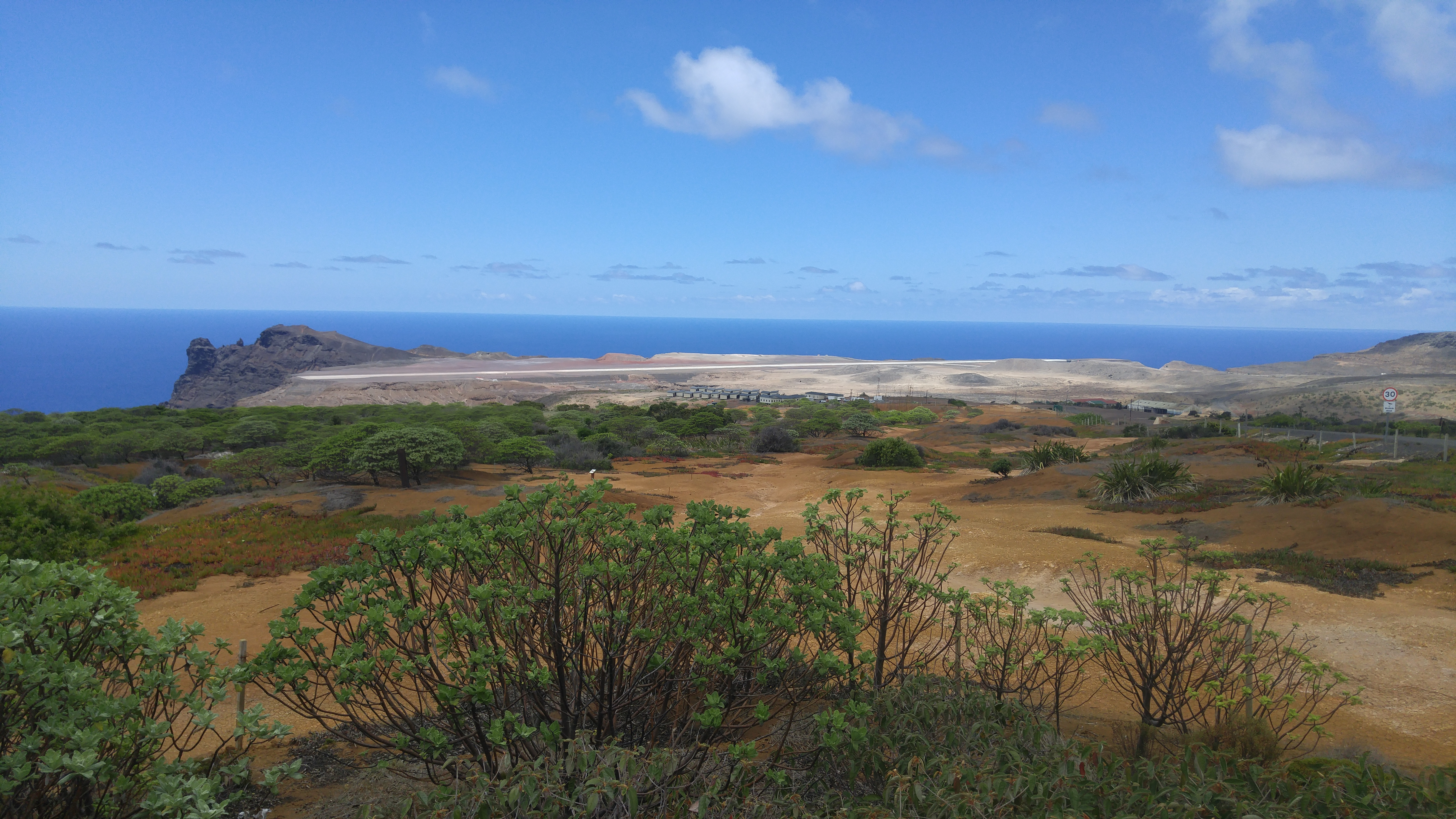 The Millenium Forest is a year 2000 project to replant endemic cabbage trees on plains on the Prosperous Bay Plain near Horse Point. The airport runway can be seen in the distance.